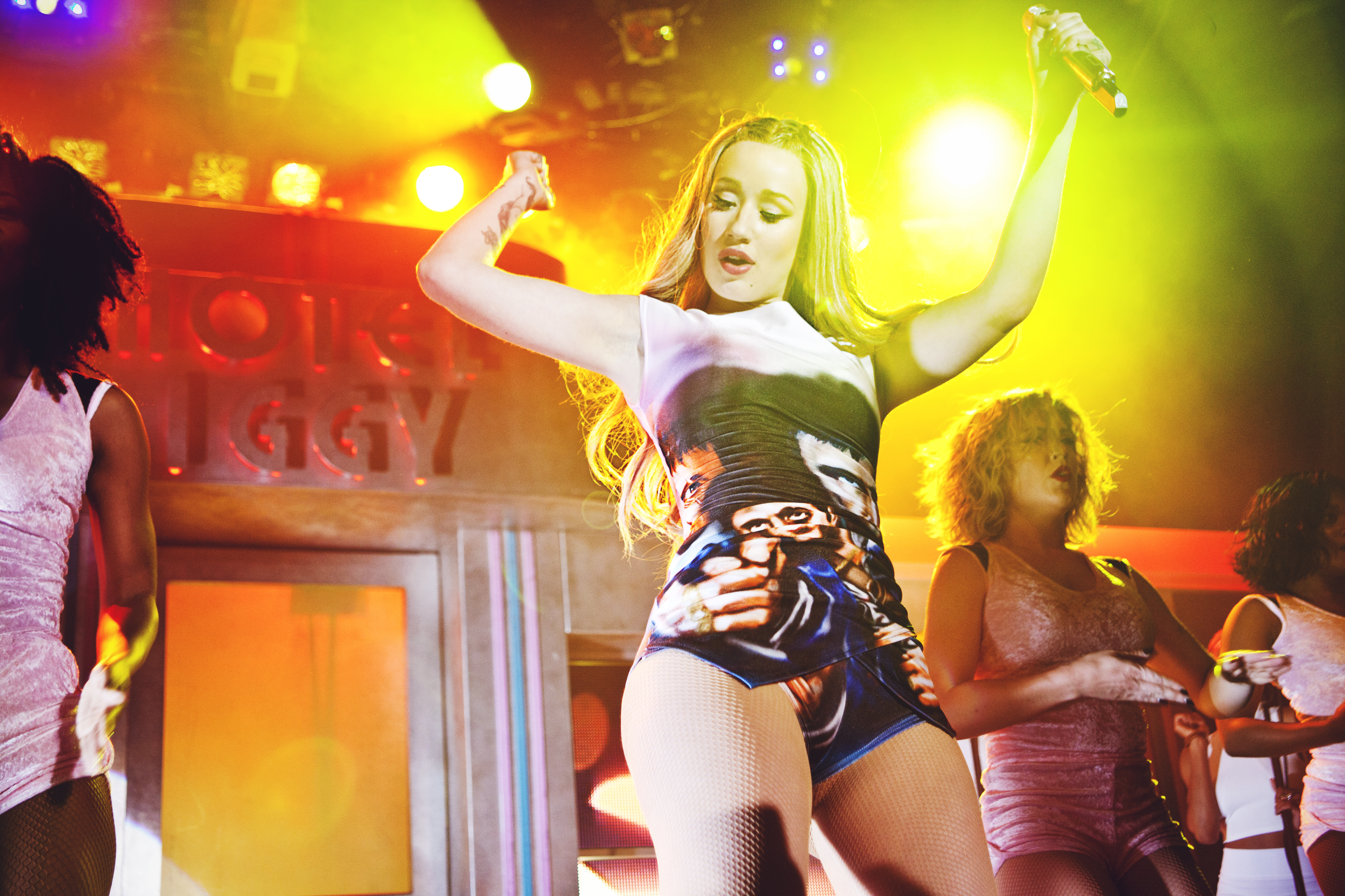 Iggy Azalea performing at the Irving Plaza in New York as part of her The New Classic Tour in May 2014